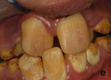 amelogenesis imperfecta, hypomineralised type. The enamel is rough, soft and discoloured.